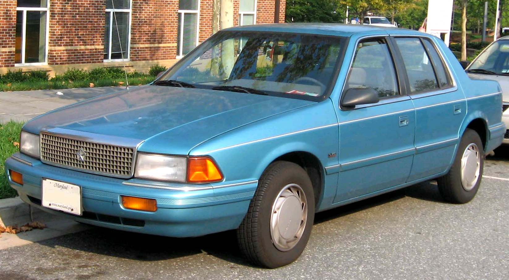 Plymouth Acclaim photographed in College Park, Maryland, USA.